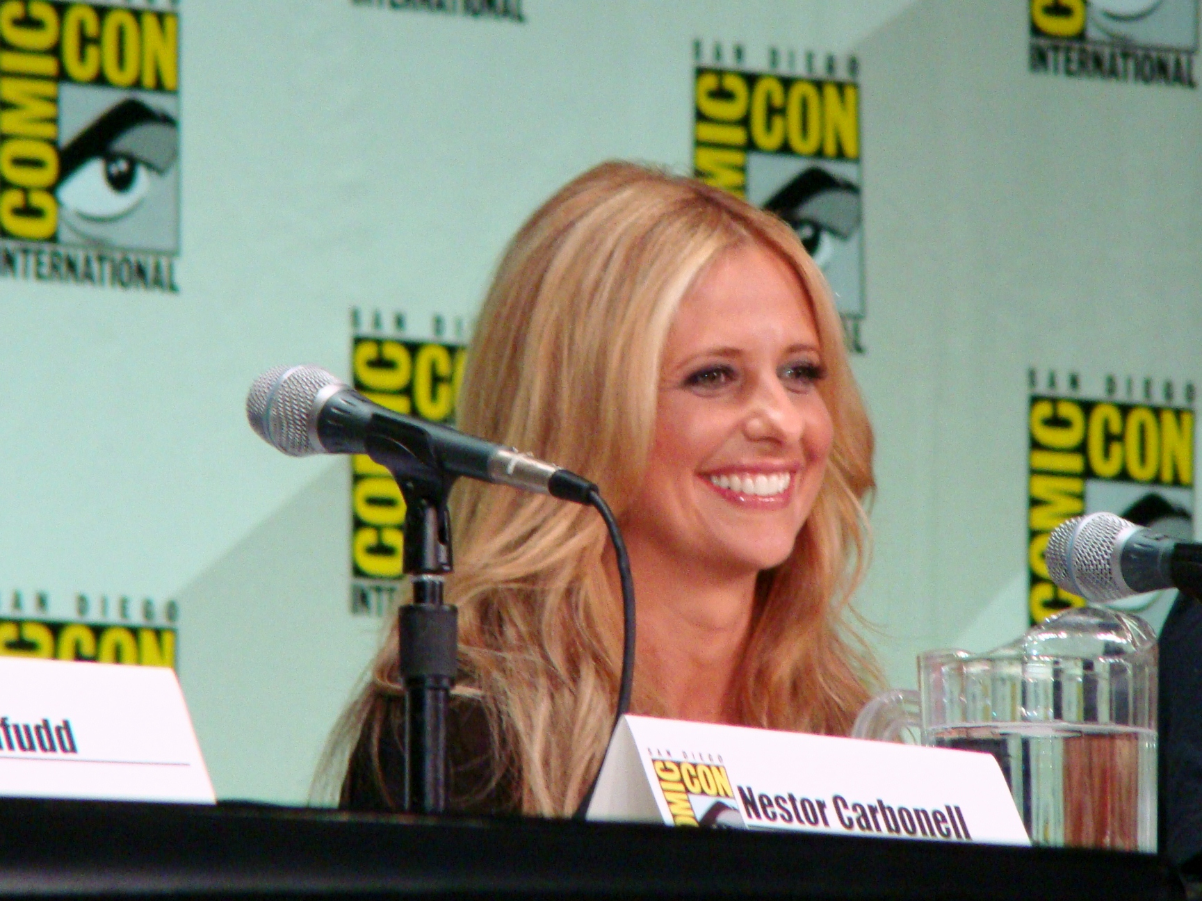 Sarah Michelle Gellar at San Diego Comic-Con 2011 promoting Ringer.